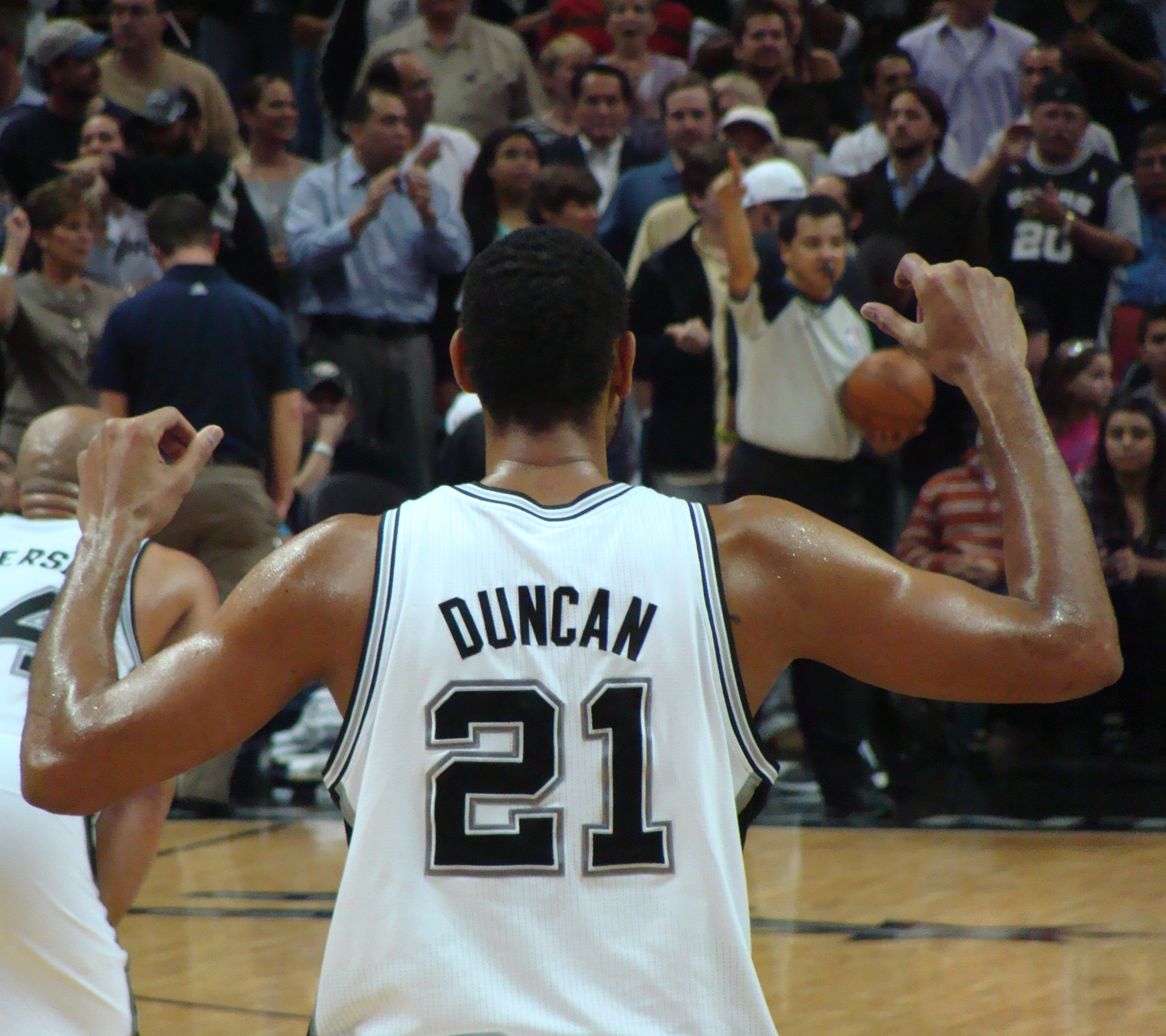 Tim Duncan of the San Antonio Spurs, during the Spurs-Nuggets match on 12-22-2010 in San Antonio, TX.